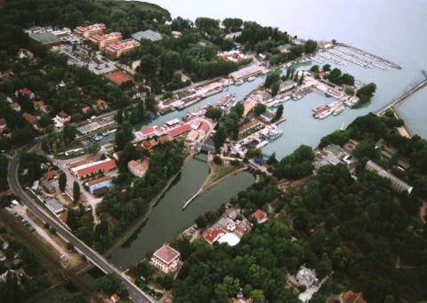 Siófok, Hungary, aerialphotography